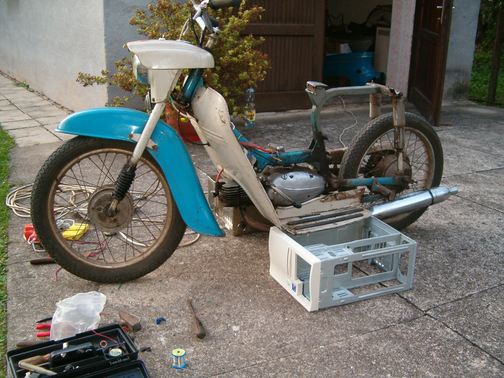 Jawa 20 fichtl.